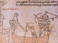 Siege of Damietta